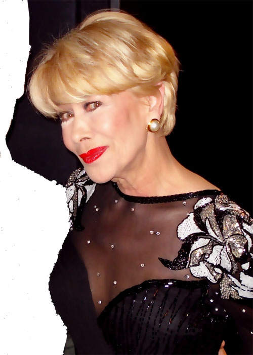 Indo (Eurasian) singer, Diva Anneke Gronloh. Utrecht, The Netherlands.